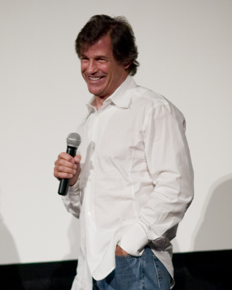 Michael Paré at the Alamo Drafthouse screening of Streets of Fire.